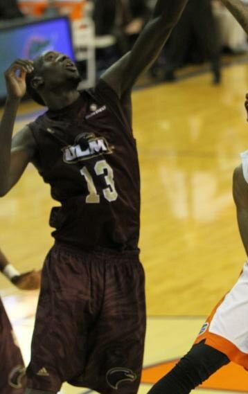 Majok Deng 13 Louisiana-Monroe Basketball in Gville 2014/11/21